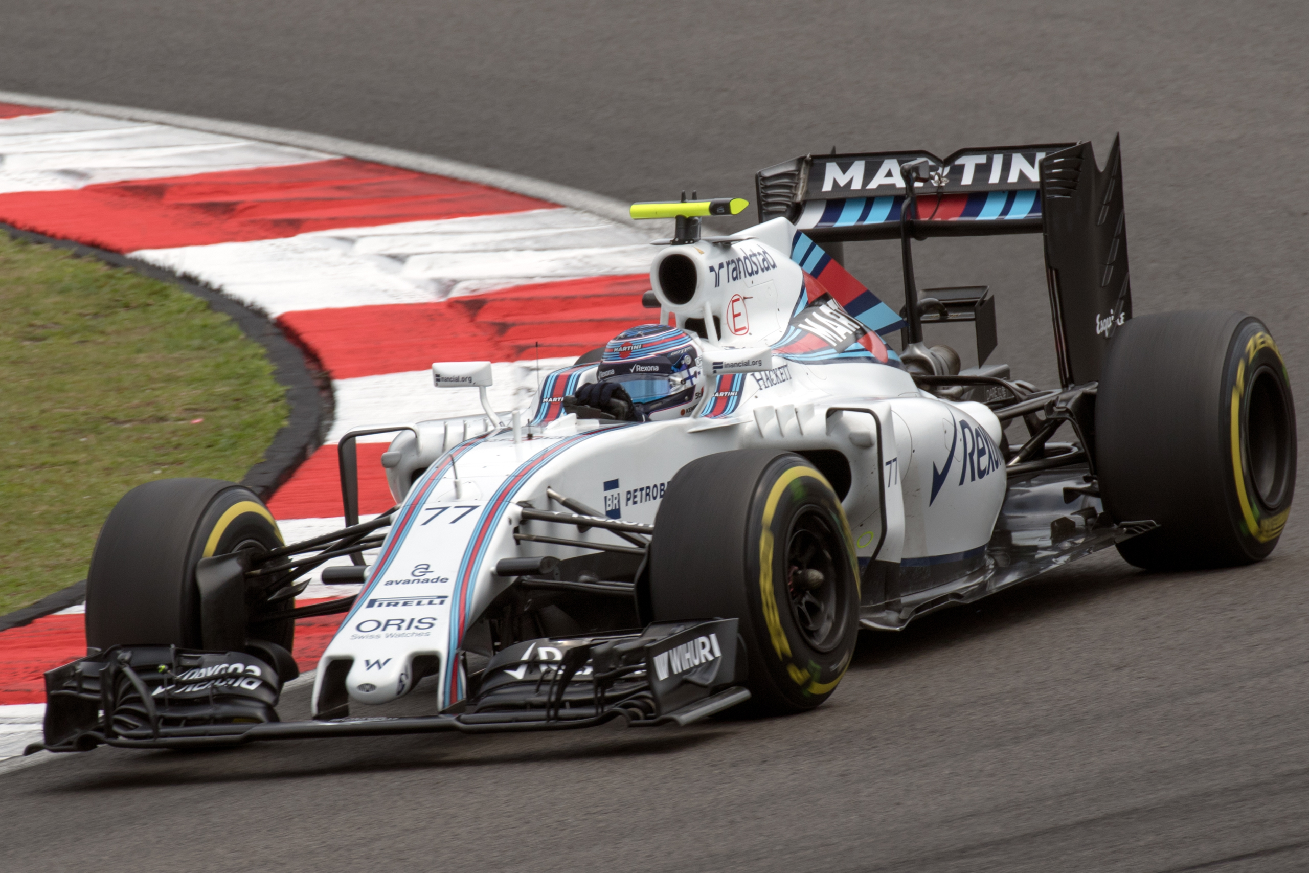 Formula One 2016 Rd.16 Malaysian GP: Felipe Massa (Williams)